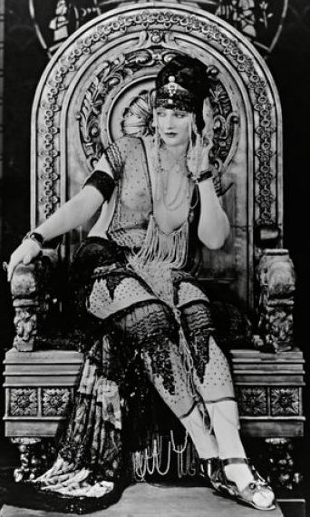 Betty Blythe in The Queen of Sheba